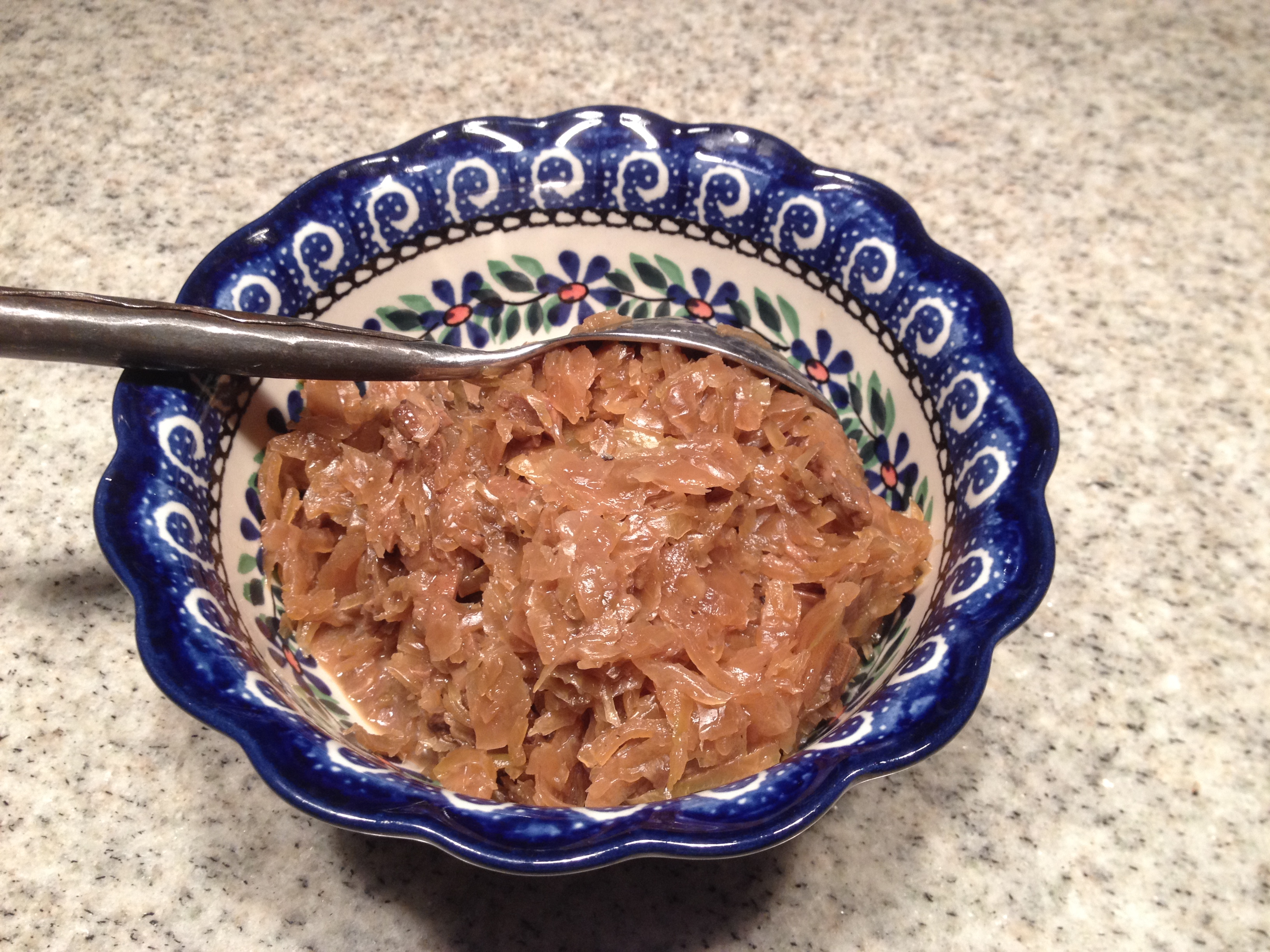 Cabbage with mushrooms served on Christmas Eve